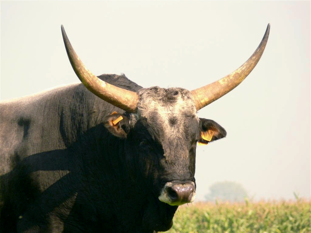 Maremmana primitivo bull.